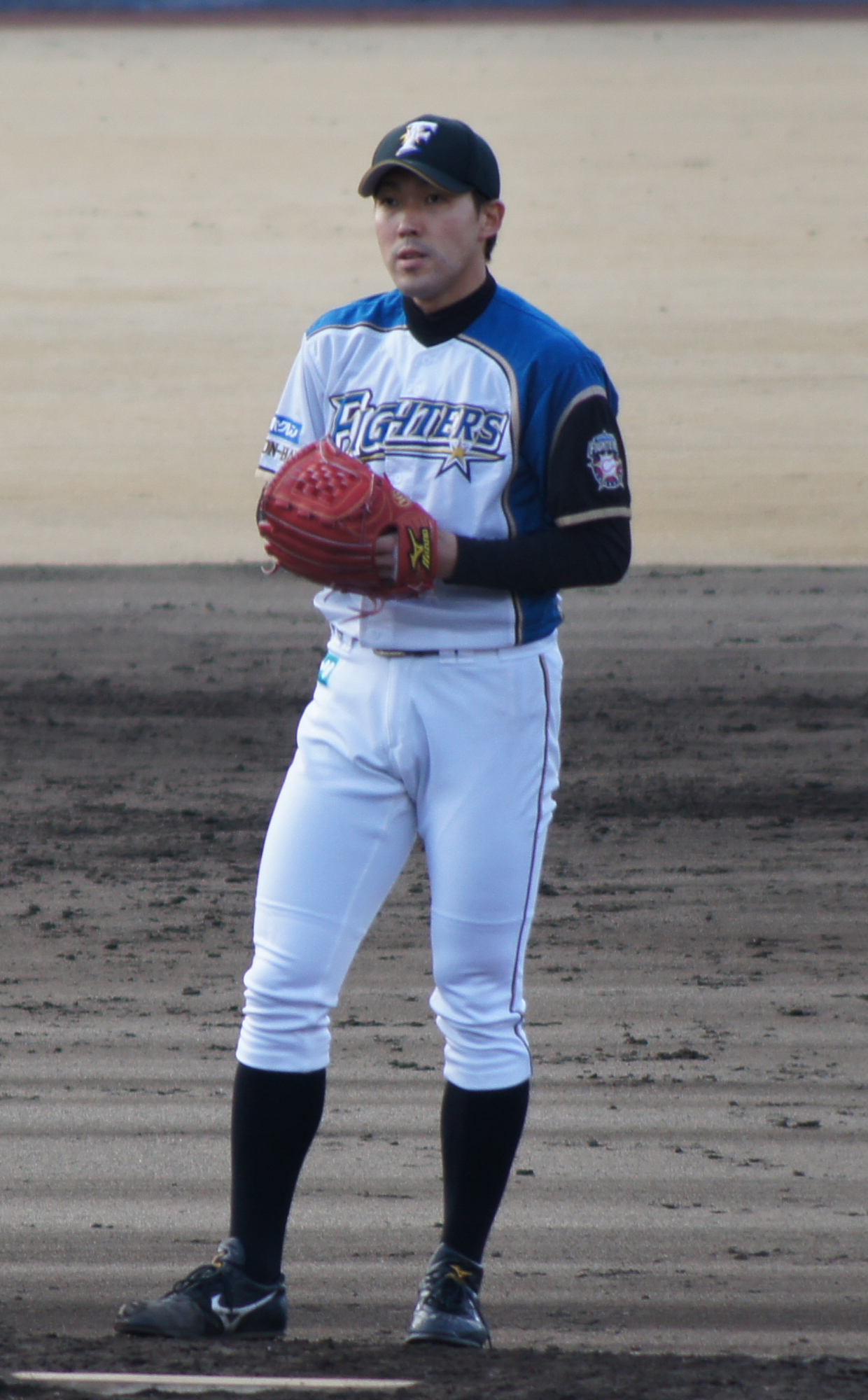 Kazuhito Tadano, pitcher of the Hokkaido Nippon-Ham Fighters, at Fighters Stadium.